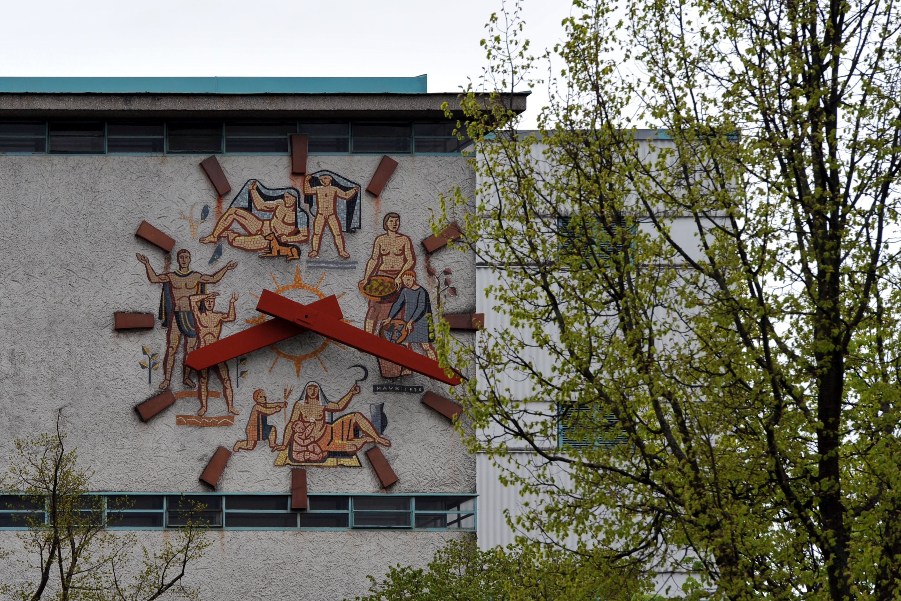 The making of this work was supported by Wikimedia Austria. For other files made with the support of Wikimedia Austria, please see the category Supported by Wikimedia Österreich.